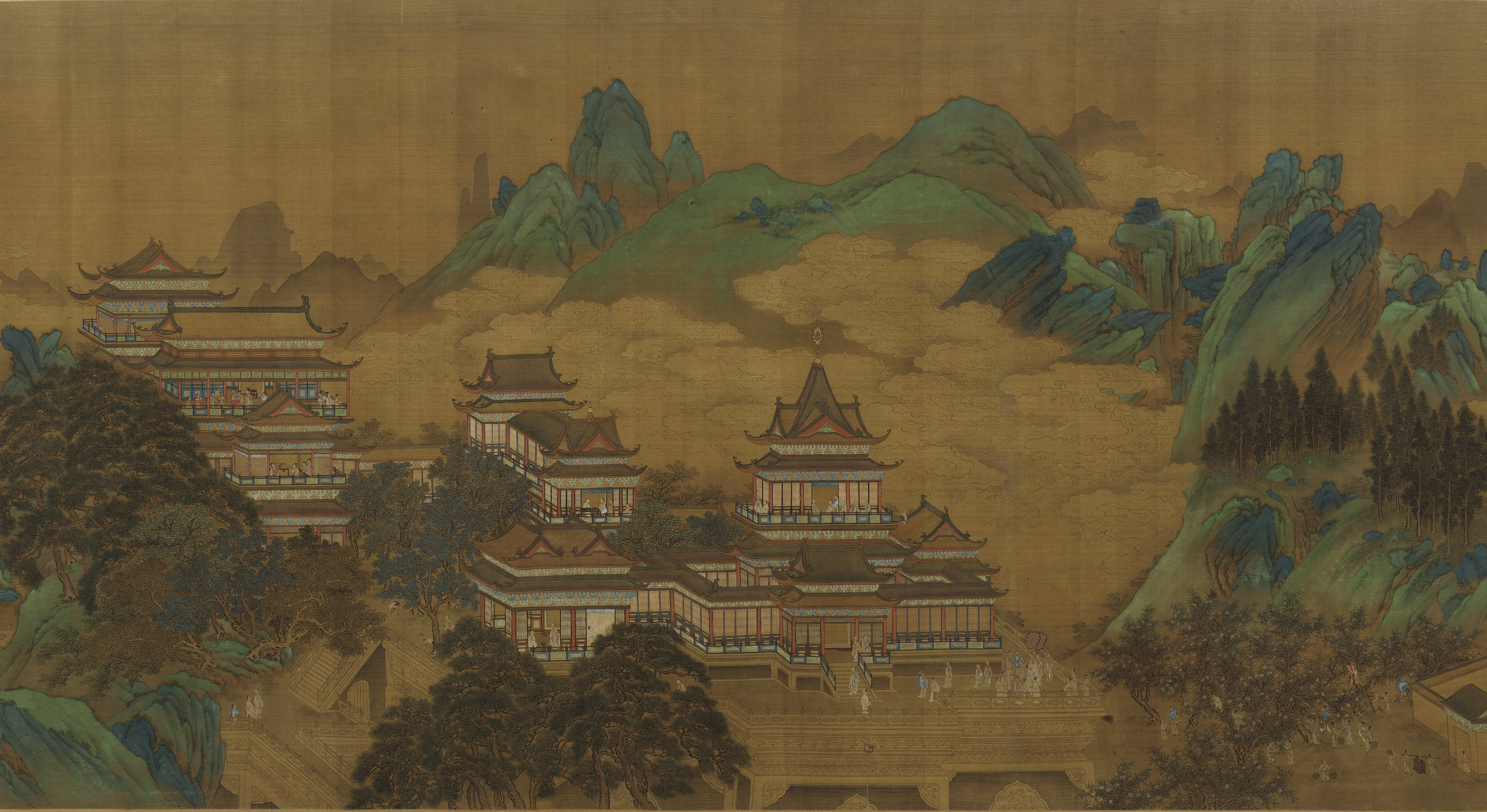 Peach Festival of the Queen Mother of the West, a Chinese Ming Dynasty painting from the early 17th century, by an anonymous artist. From the Freer and Sackler Galleries of Washington D.C. Author: User:PericlesofAthens Date: August 3, 2007